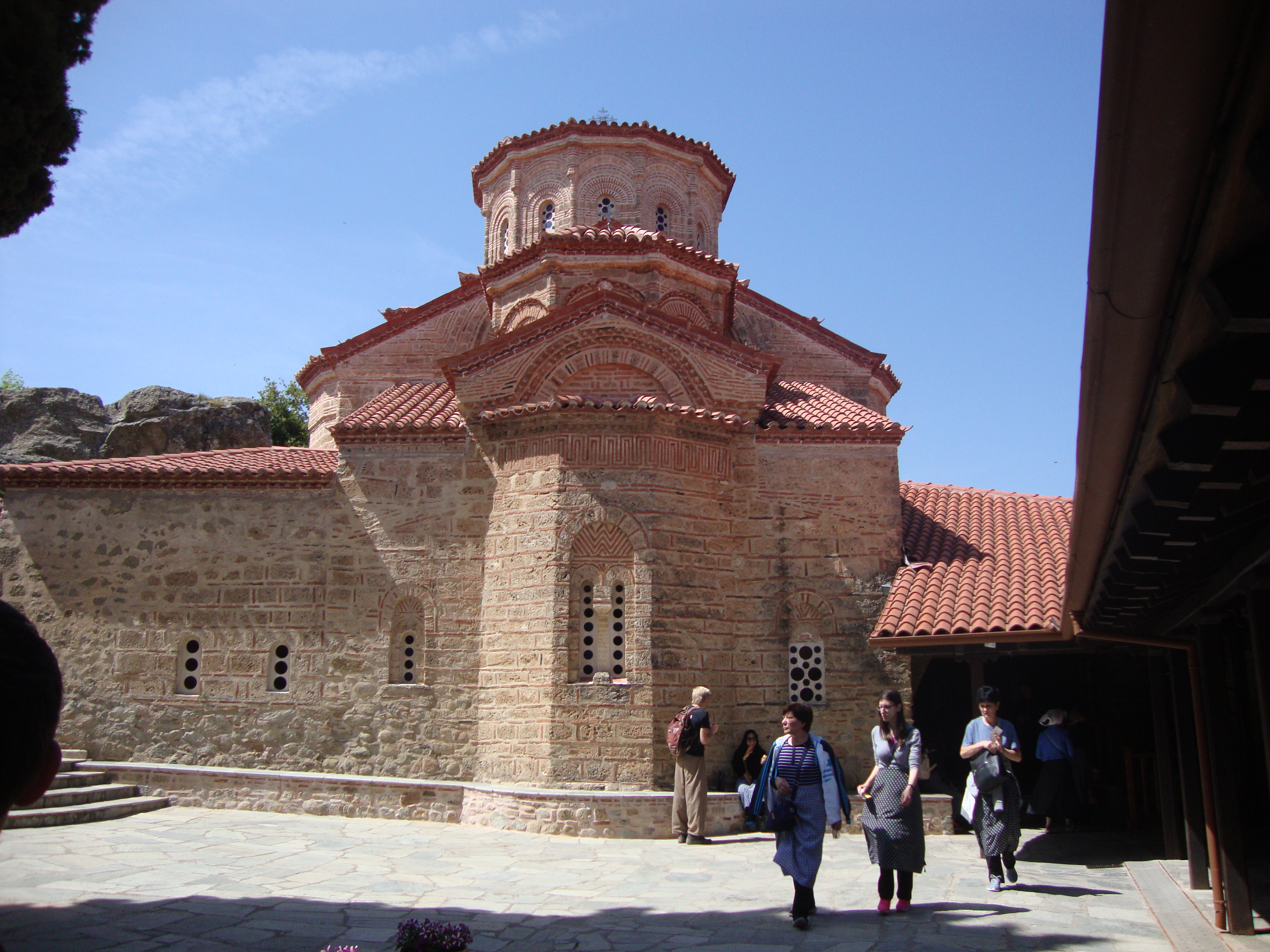 Meteora45672